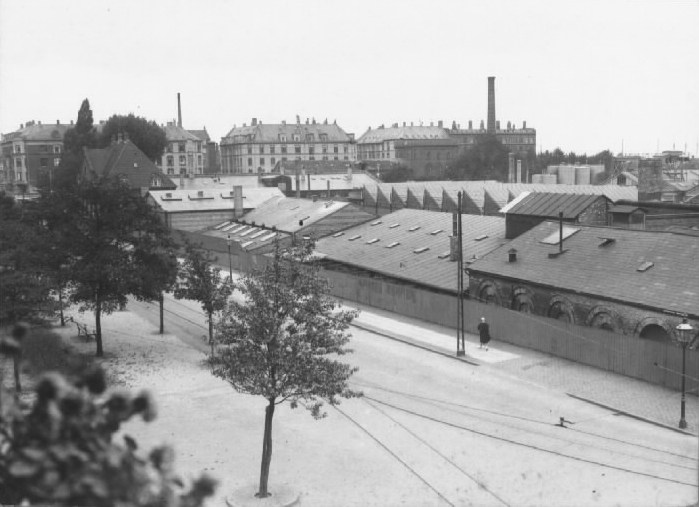 Øresund's chemiske Fabriker, demolished factory in Østerbro, Copenhagen.